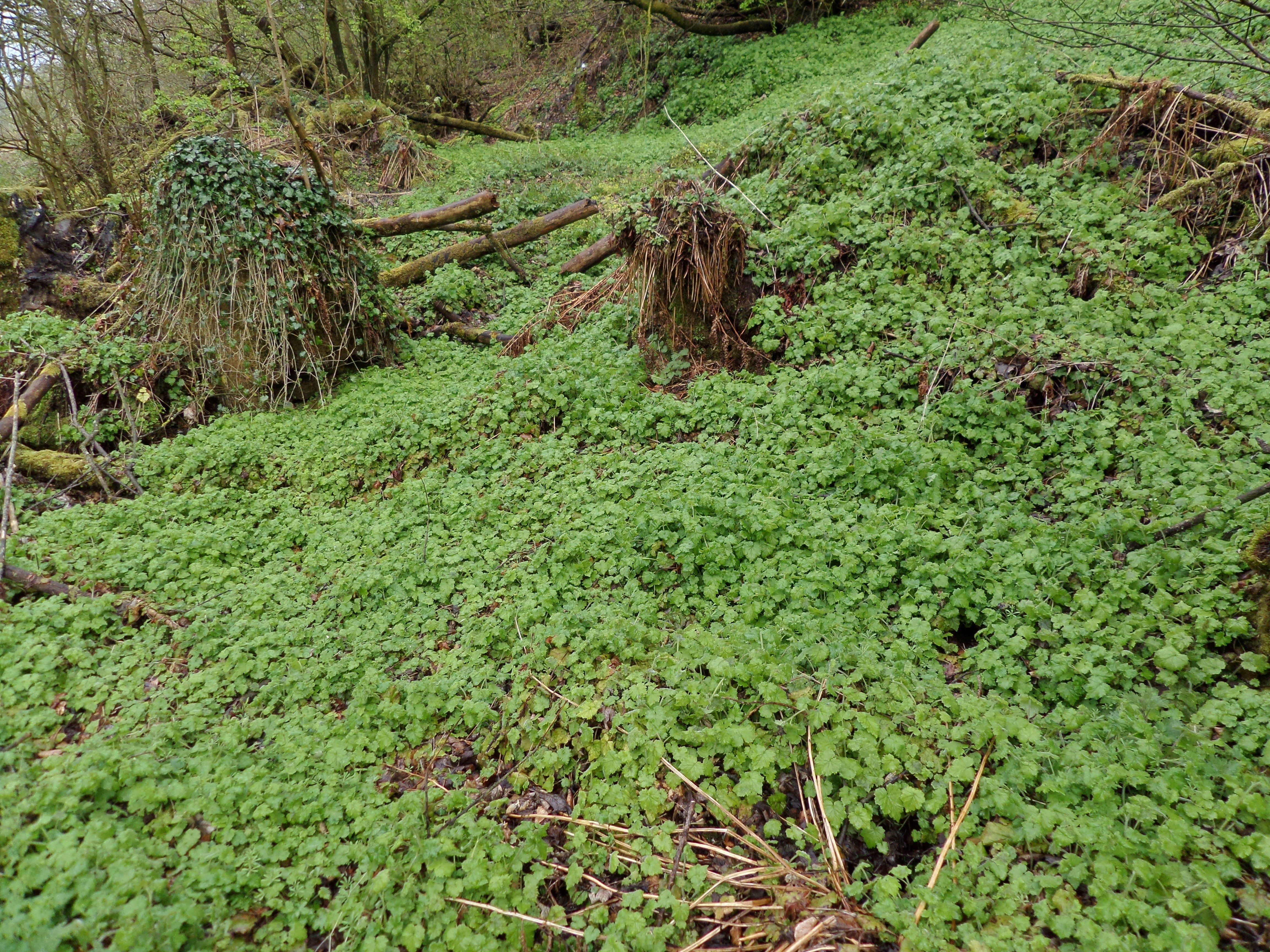 Tolmiea menziesii, the Pick-a-back, Piggyback or Thousand Mothers plants showing a monoculture invasive domination of habitat at Lainshaw Mill, Stewarton, East Ayrshire, Scotland.